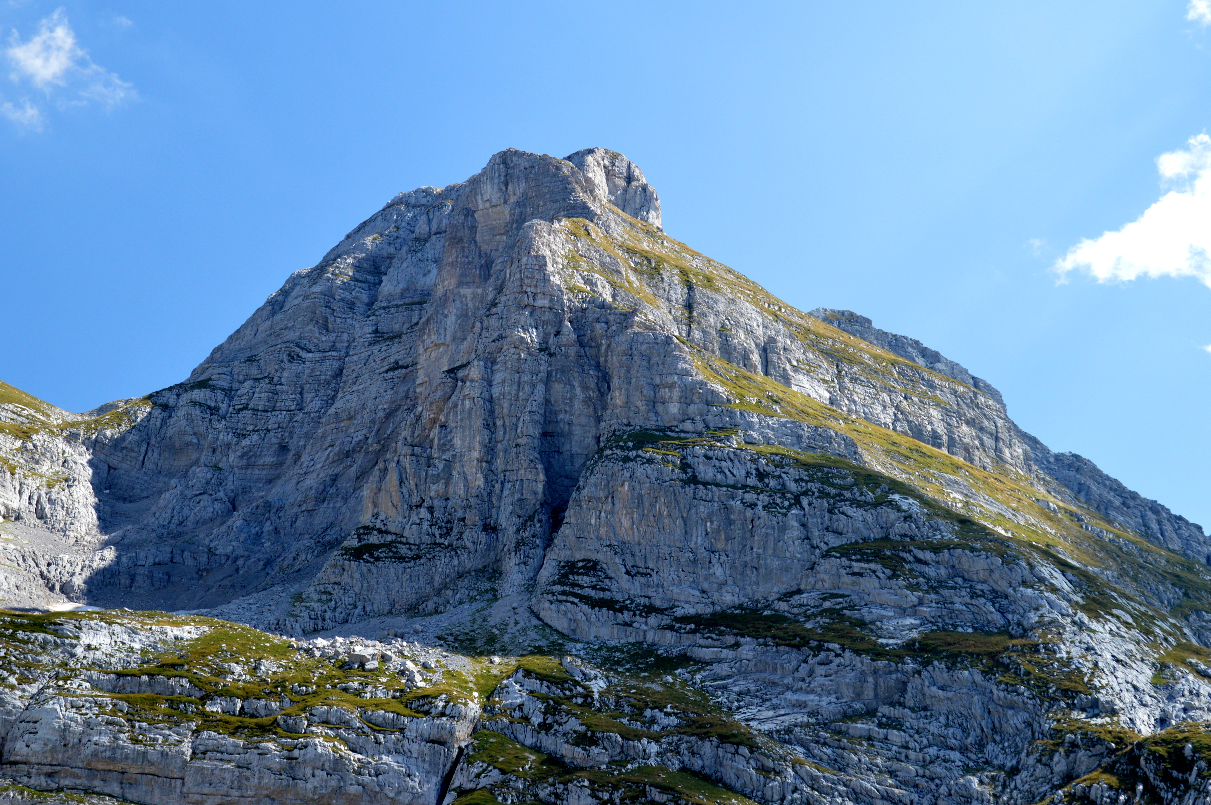 Summit of Zla Kolata from northeast